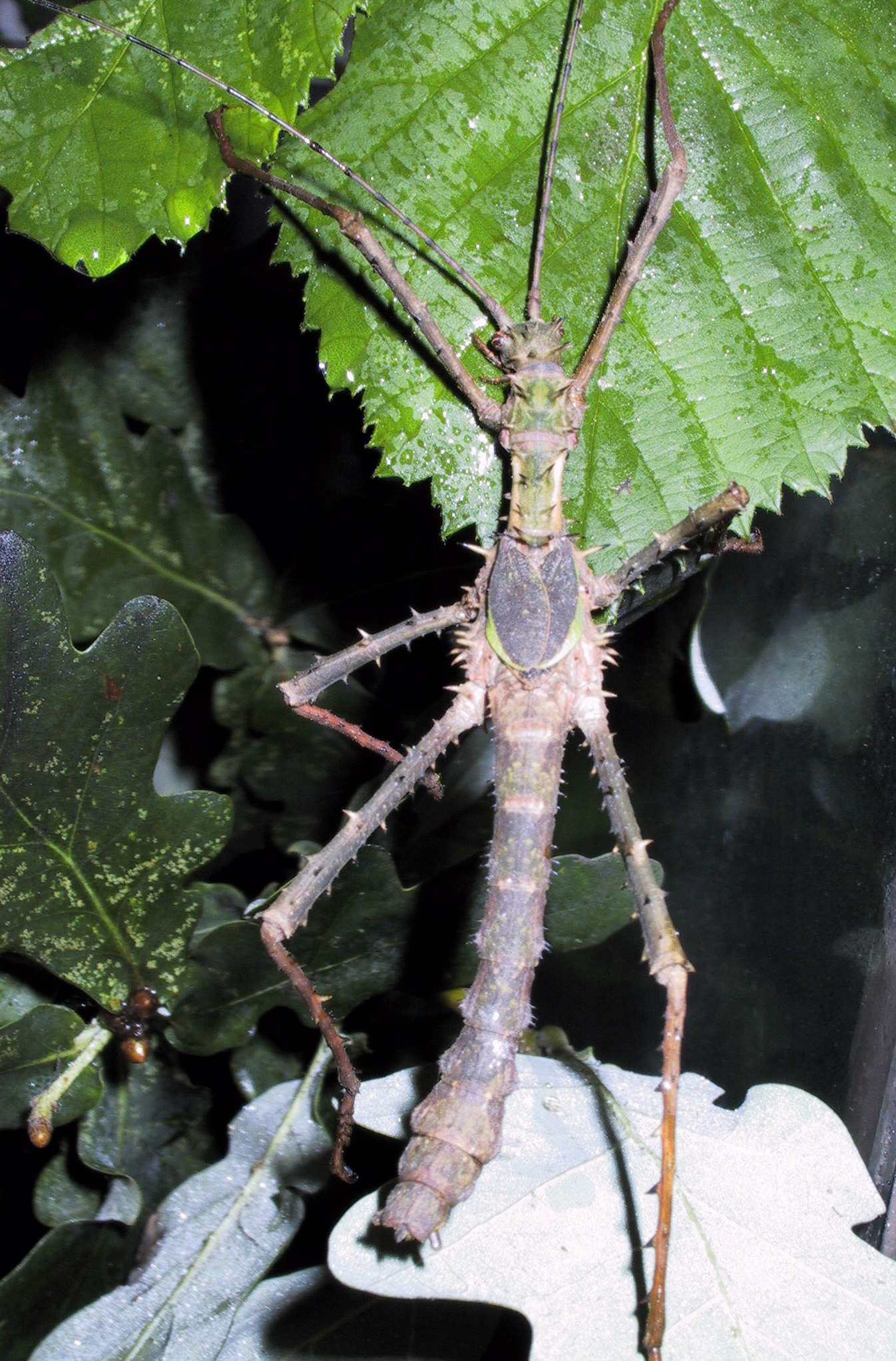 Male of Müller's Haaniella (Haaniella muelleri)